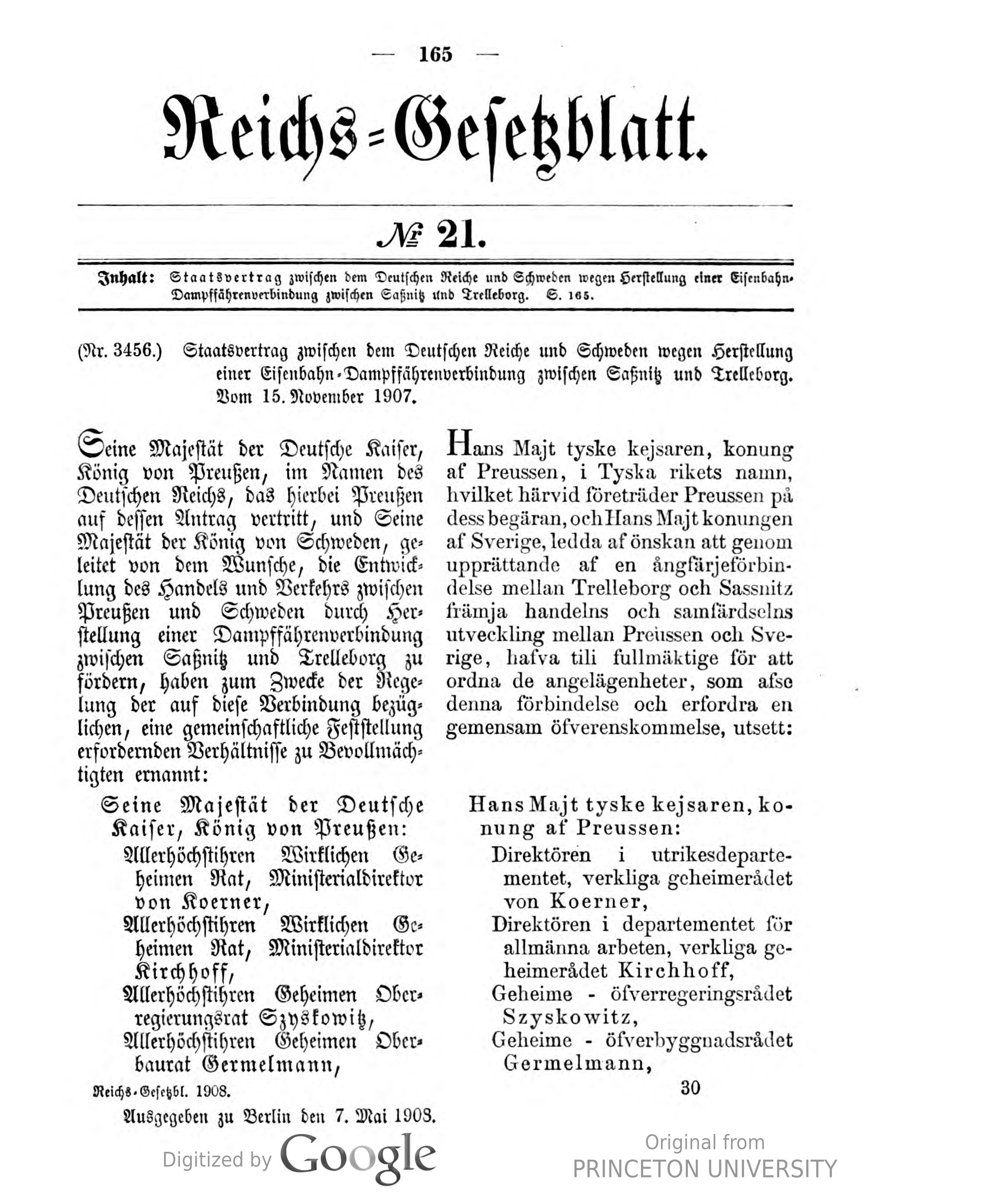 Scan from the Imperial Law Gazette of Germany, 1908